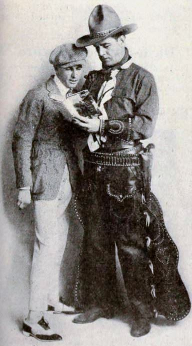 American screenwriter Jules Furthman aka Stephen Fox and actor William Russell, on page 37 of the May 10, 1919 Exhibitors Herald. During World War I Jules wrote under the pen name "Stephen Fox" as he thought Furthman sounded too German.